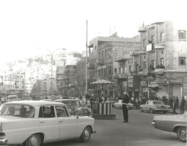 Amman downtown 1970